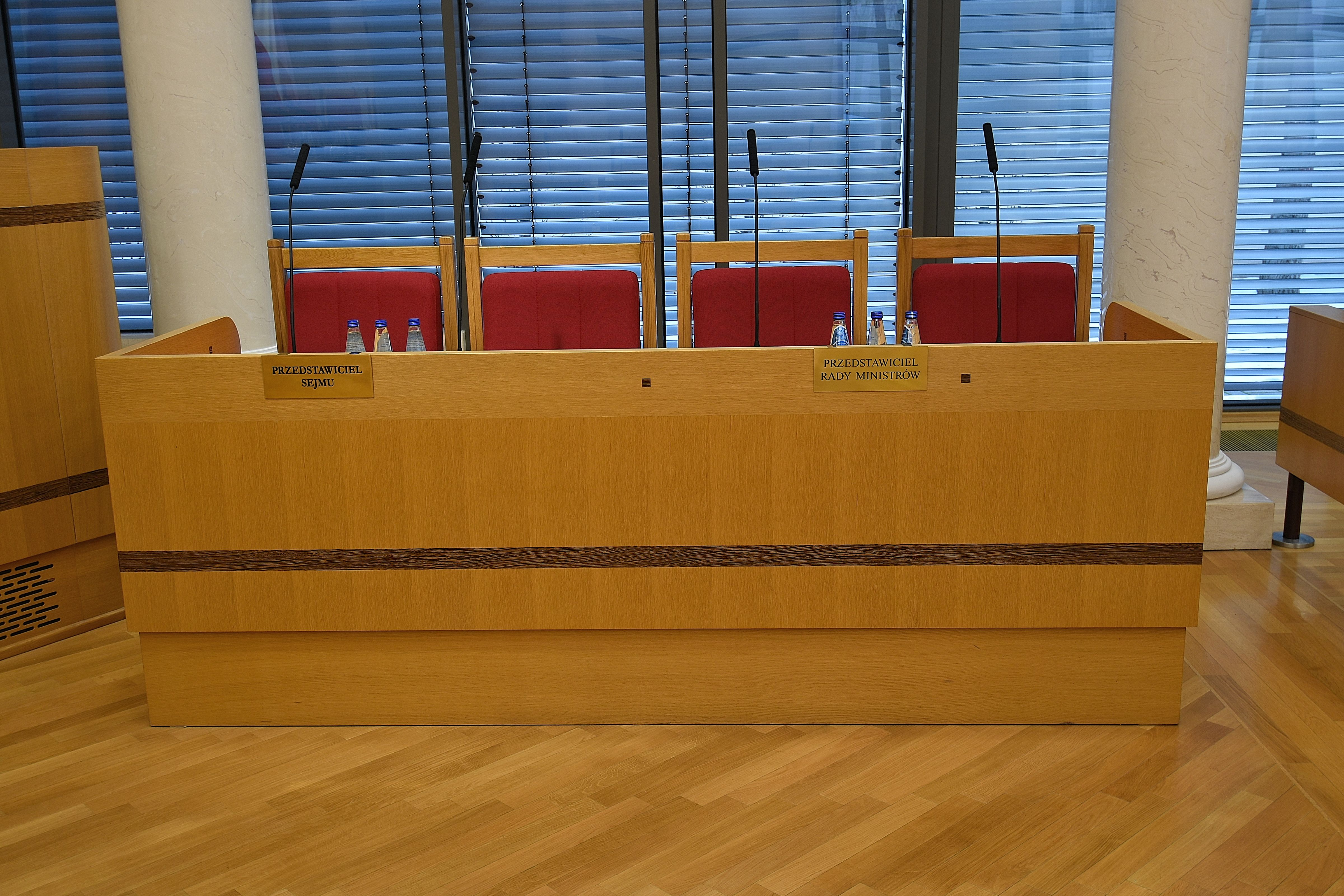 Main courtroom of the Polish Constitutional Tribunal